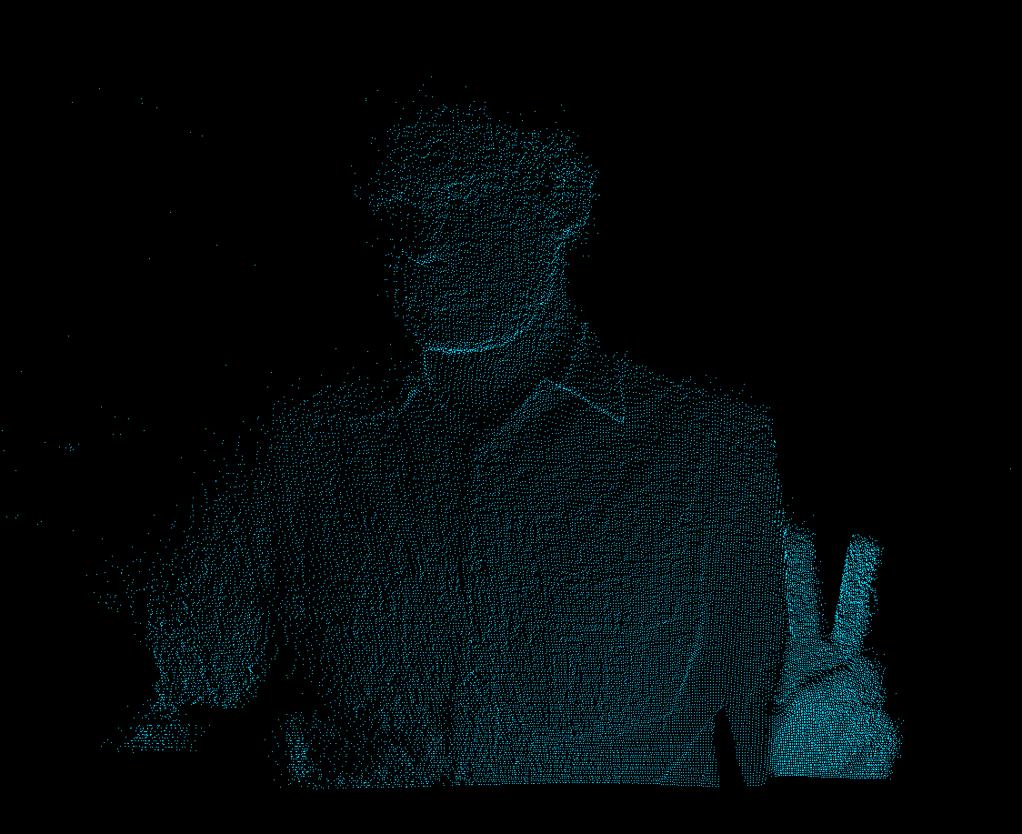 Point Cloud of a person acquired with Creative Senz3D time of flight camera.